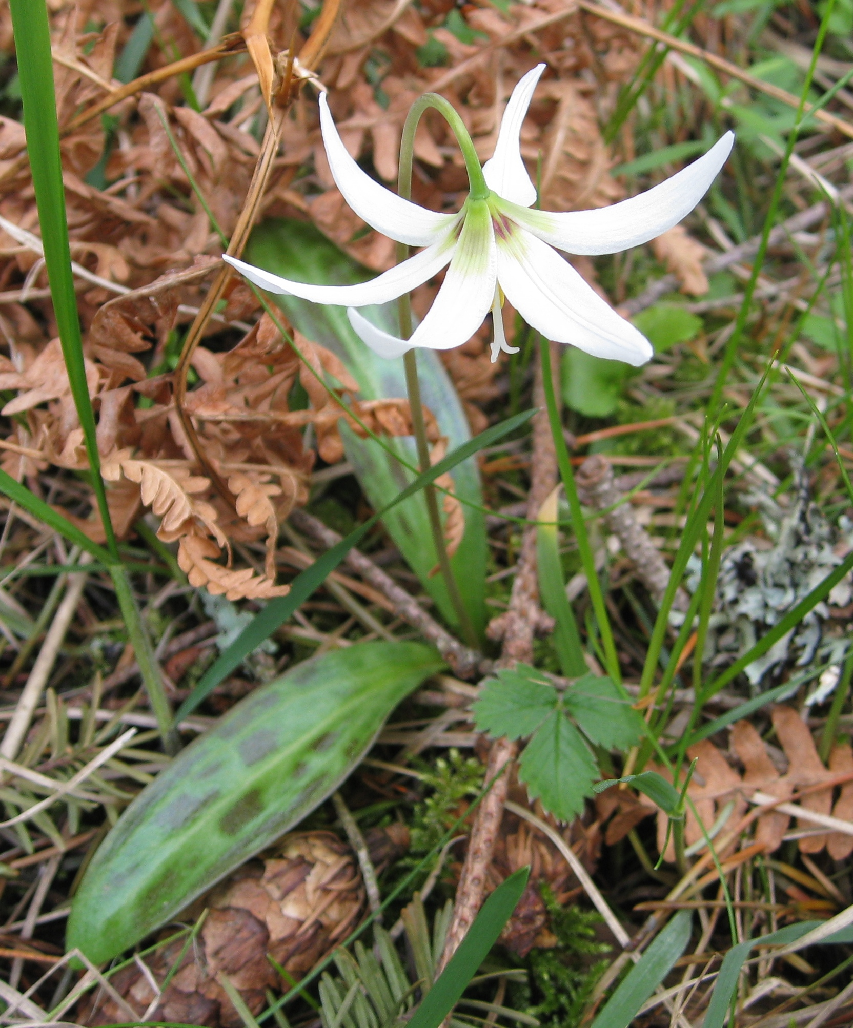 Erythronium oregonum. There were several small patches growing just below Little Summit, Moran State Park, Orcas Island, Washington at an altitude of 650 meters.